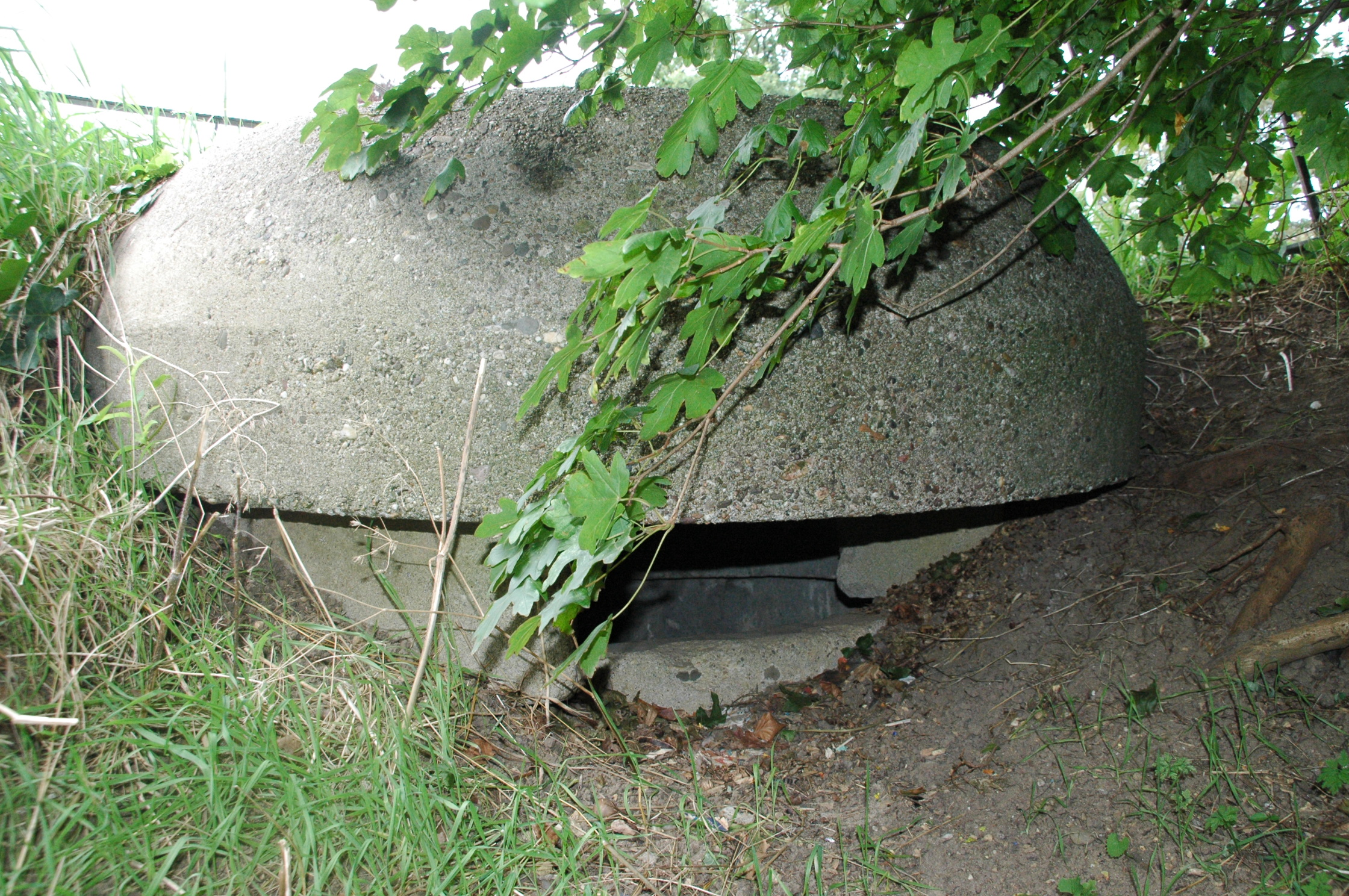 Small german bunker of the Pantherstellung